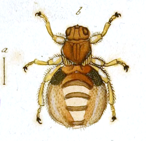 Lipoptena cervi (Linnaeus 1758) labelled as Pediculus Cervi Fabr.. a Natural size. b Enlarged.